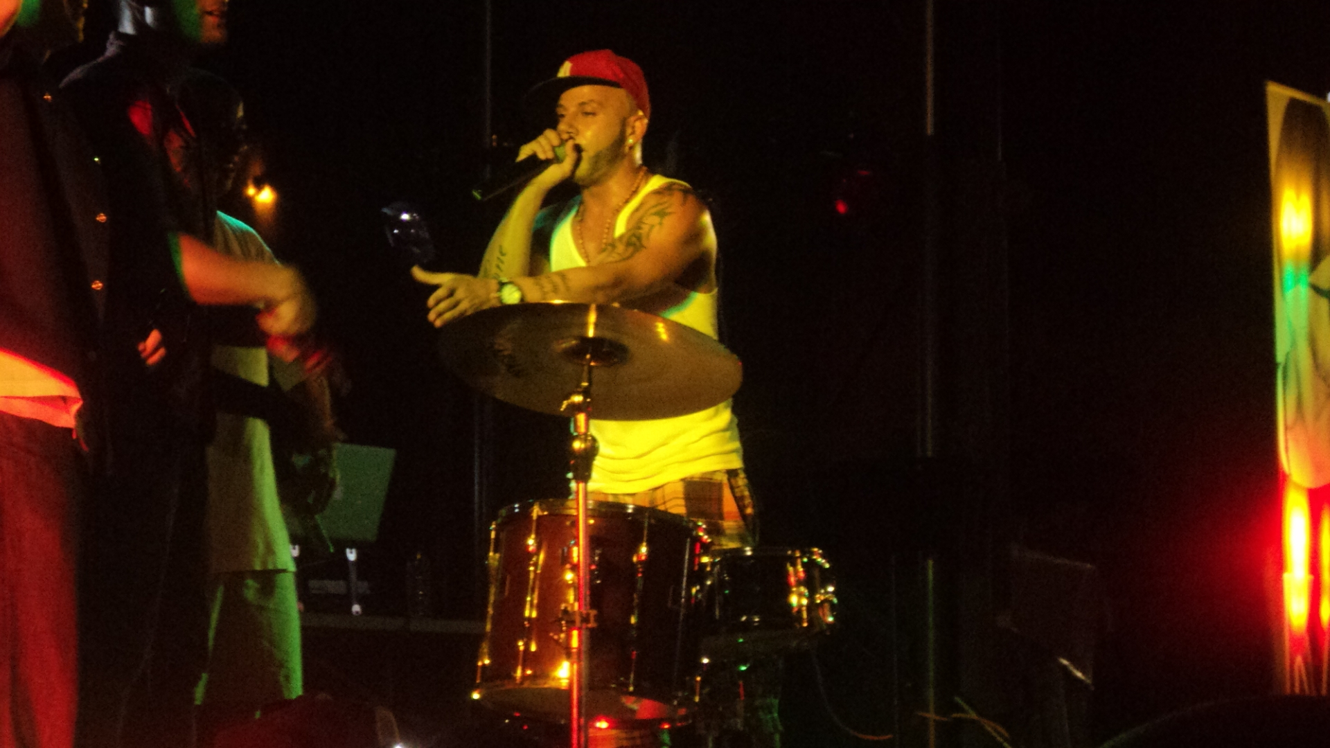 Live concert given by Karl Wolf at the 9th annual Lebanese Festival of Montreal on 17 June 2011. Photo taken by me werldwayd for publishing in Wikipedia.